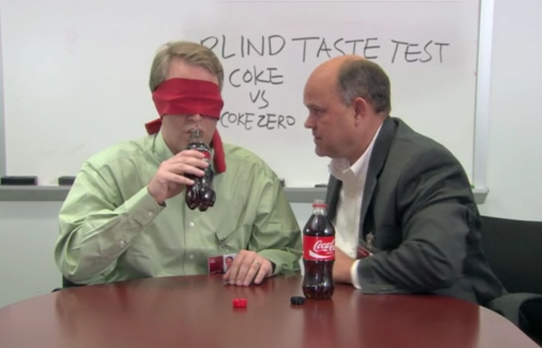 Filmed on location in the corporate offices of The World of Coca-Cola in Atlanta, Georgia.